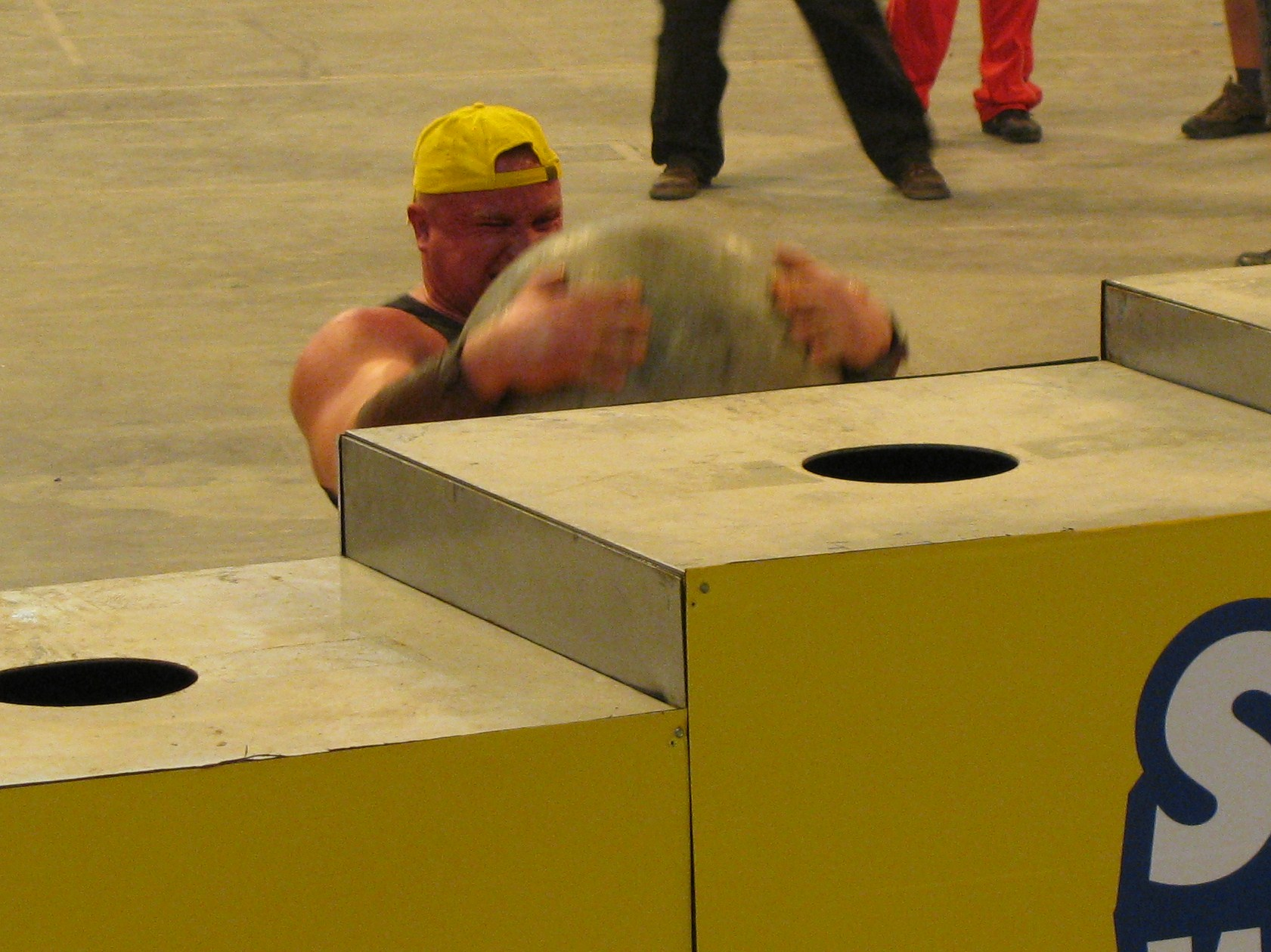 Grzegorz Szymanski - a strength athlete from Poland at Atlas Stones.